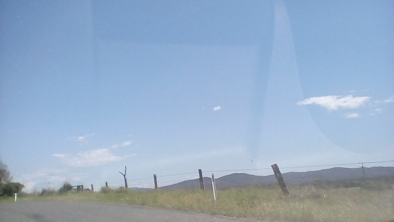 Landscape of Cairncross Parish (Macquarie County) west of Port Stephens, New South Wales.